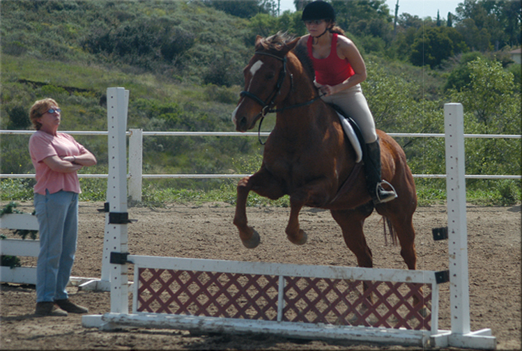 Imen Avery, former competition show jumper, occasionally works with Vicki Schuman, an English riding instructor, helps her horses run their verson of the obstacle course. English and western riding lessons are taught at the stables.